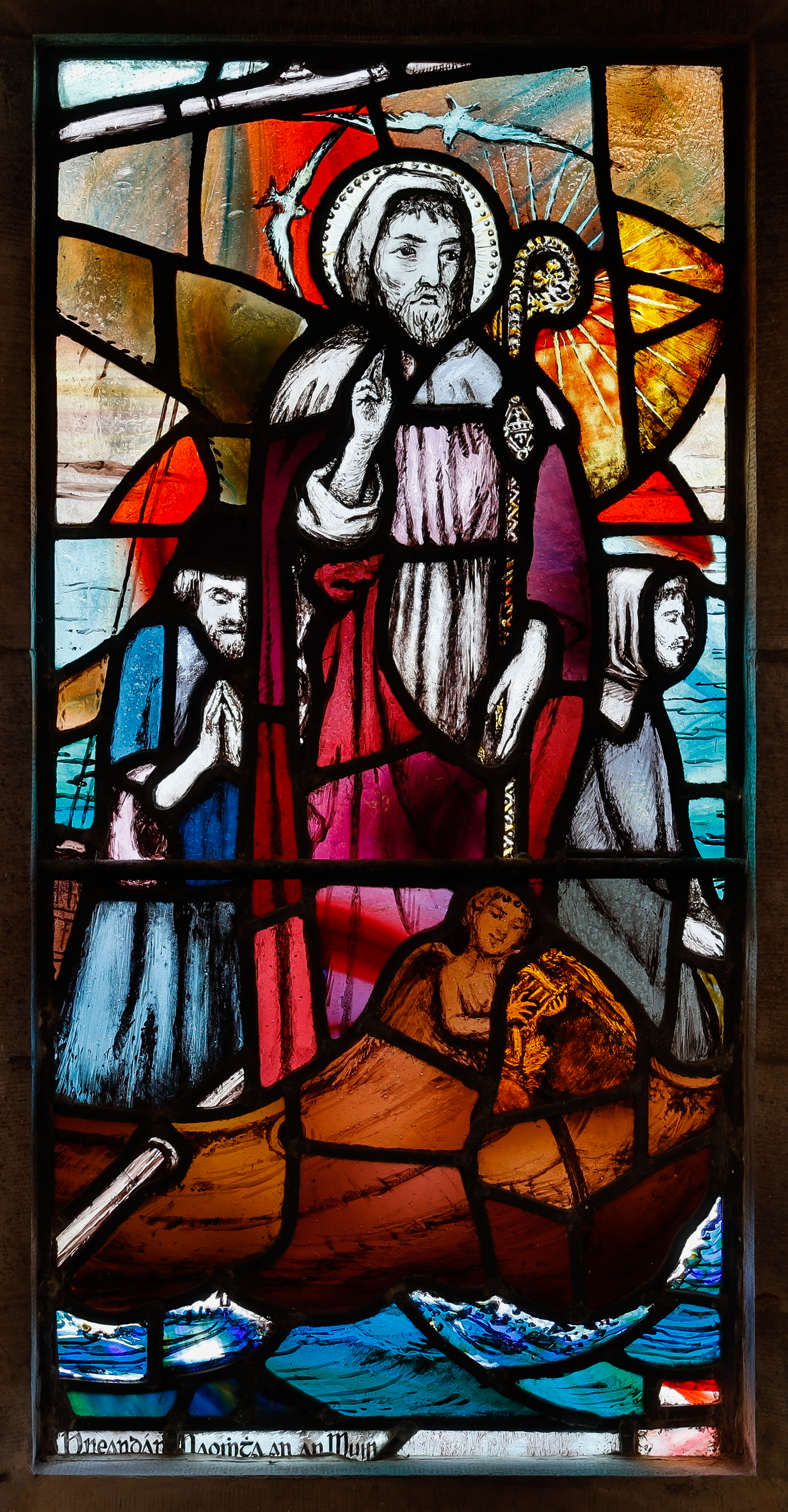 Stained glass window by Sarah Purser in the western porch, depicting St. Brendan the Navigator at sea. This work is titled “Breandán Naoṁṫa ar an Muir” (see inscription at the bottom) and was created mid 1903 with dimensions 915 × 457 mm. It is her “only window she carried through all the design and craft stages with no assistant”. (See entry 374 in the list of her works at John O'Grady, The life and work of Sarah Purser, ISBN 1-85182-241-0, p. 244–245; Nicola Gordon Bowe et al, Gazetteer of Irish Stained Glass, ISBN 0-7165-2413-9, p. 57; St Brendan's Cathedral, Loughrea, ISBN 0-900346-76-0.) Sarah Purser (1848–1943) Alternative names Sarah Henrietta PurserDescriptionIrish painter and stained-glass artistDate of birth/death 22 March 1848 7 August 1943Location of birth/death Dún Laoghaire DublinWork period1872–1937Work location DublinAuthority control : Q7422719 VIAF: 6994220 ISNI: 0000 0000 6703 5057 ULAN: 500015755 LCCN: no97020815 Open Library: OL5735471A WorldCat creator QS:P170,Q7422719 Wikidata has entry Q7592699 with data related to this item.